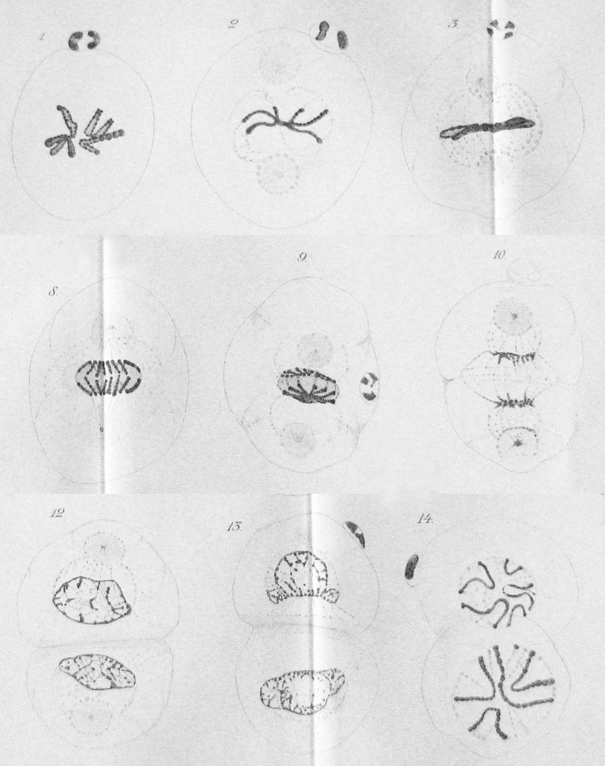 Edouard van Beneden-Archives de Biologie-1883-Panel XIXter- First egg division, formation of the first pair of blastomers